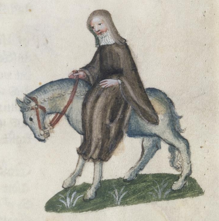 The Second Nun in the Ellesmere manuscript of Geoffrey Chaucer's Canterbury Tales.